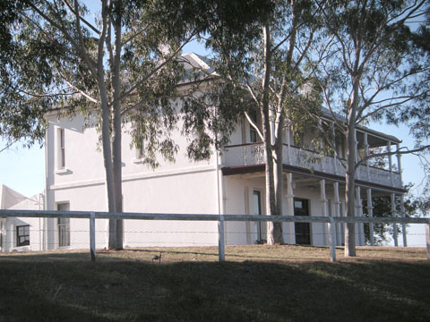 Blair Athol House after which the suburb of Blair Athol, New South Wales is named. The house is located in the adjacent suburb of Campbelltown.